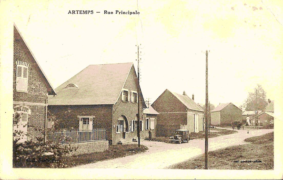 Canal's Street (pub)